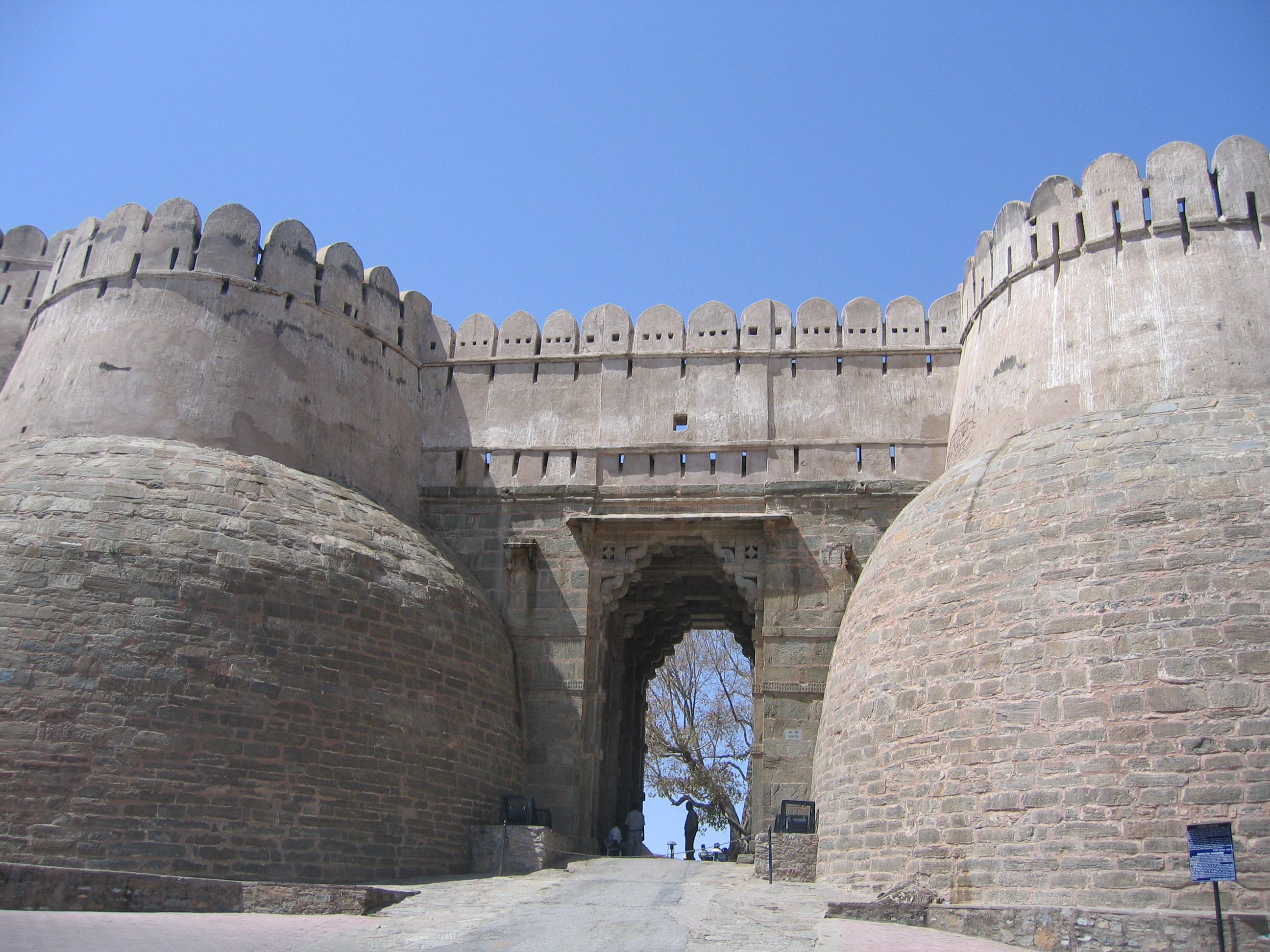 Shivam Chaturvedi is the Author, The Image has been clicked on trip to Kumbhalgarh. The image shoild be used for wikipedia articles.